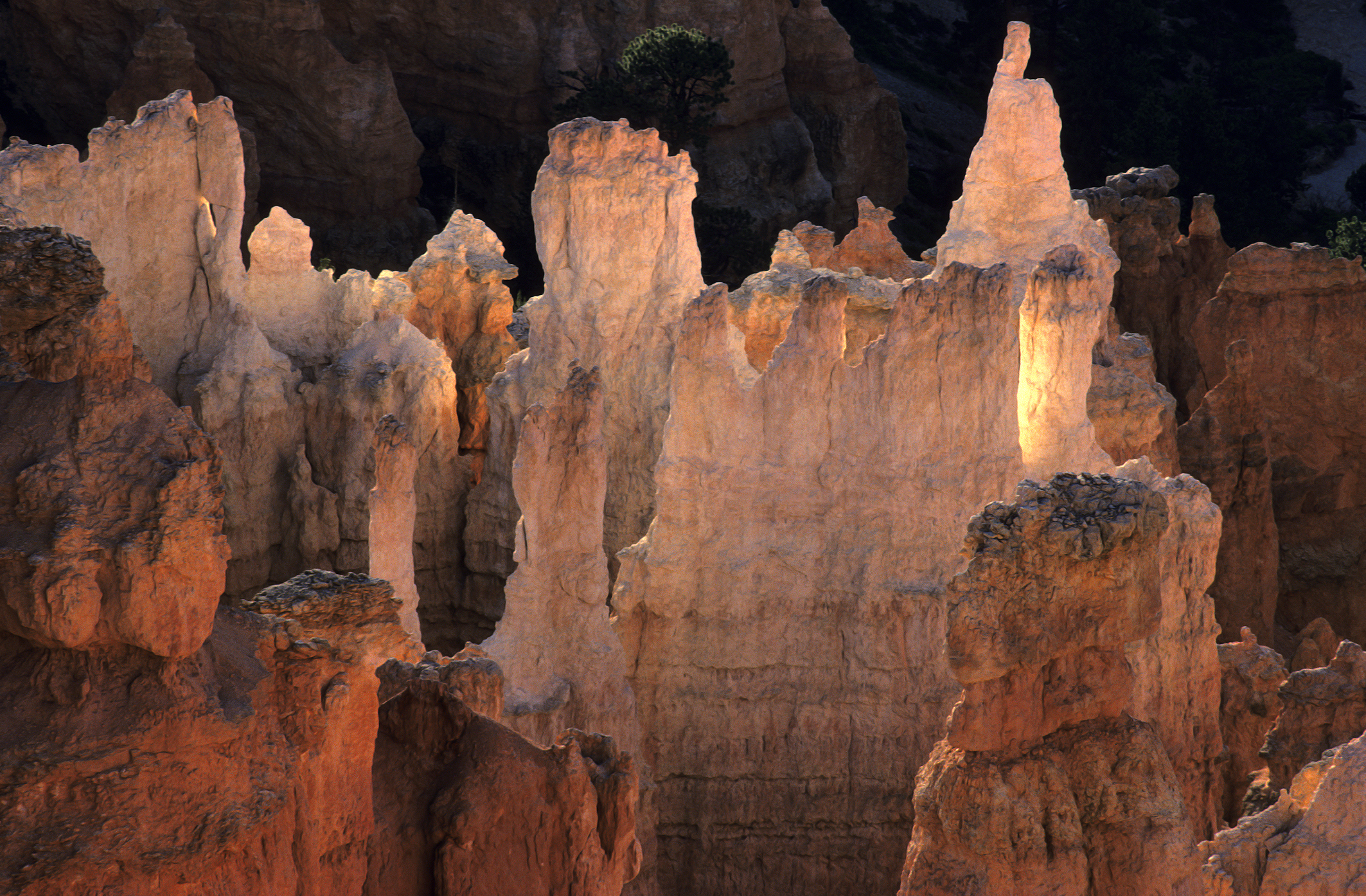 The hoodoos in the Bryce Canyon National Park. I took this image without flash or other additional artificial lightning. This is a contre-jour shot. The hoodoos are illuminated by reflected sunlight coming from the hoodoos in front of them.